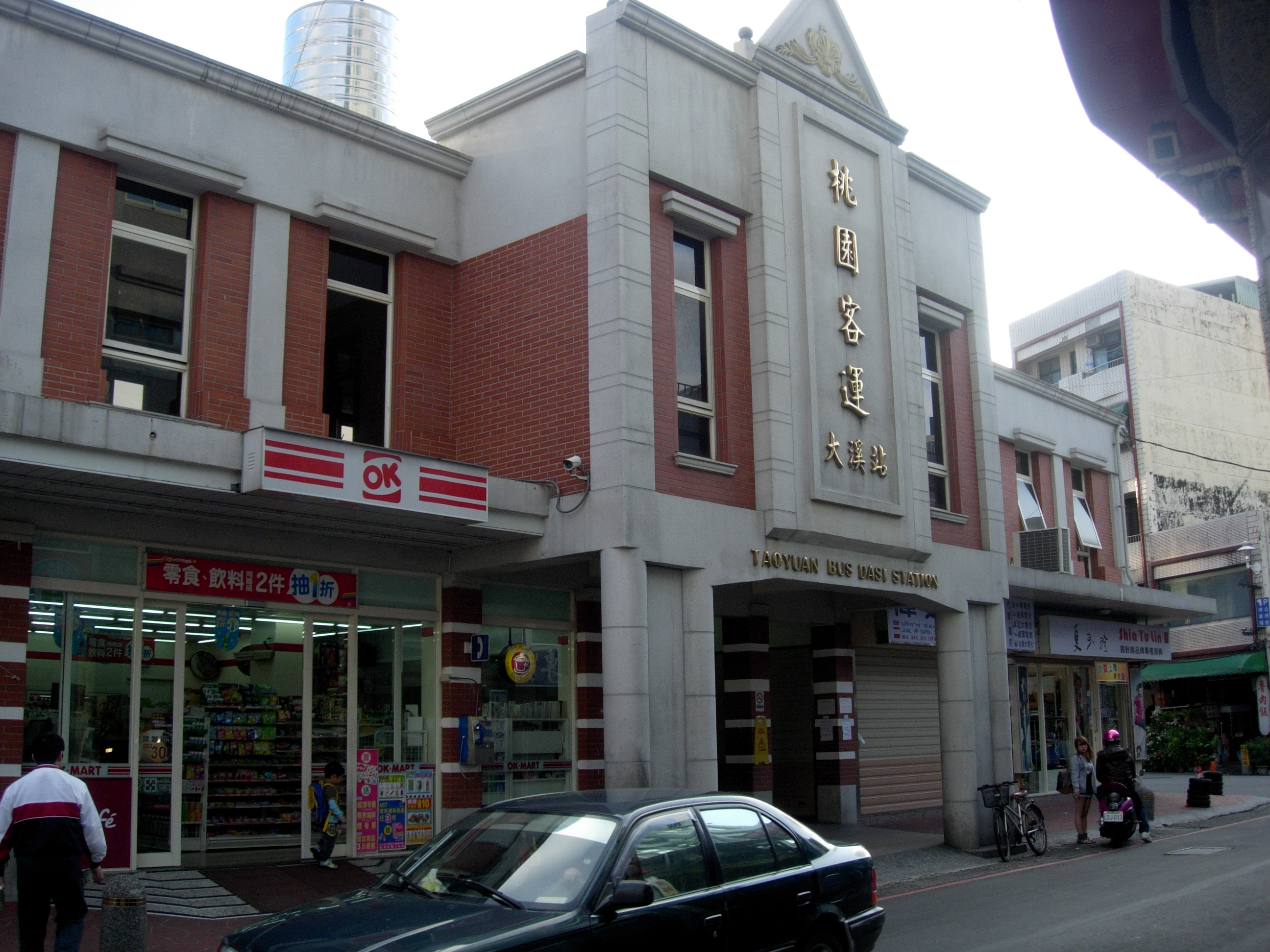 Taoyuan Bus Dasi Station